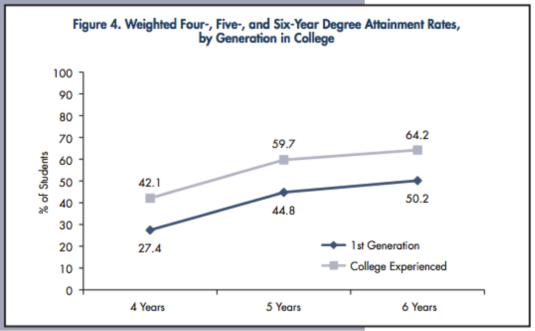 This graph presents four, five, and six year degree attainment rates by generation in college.